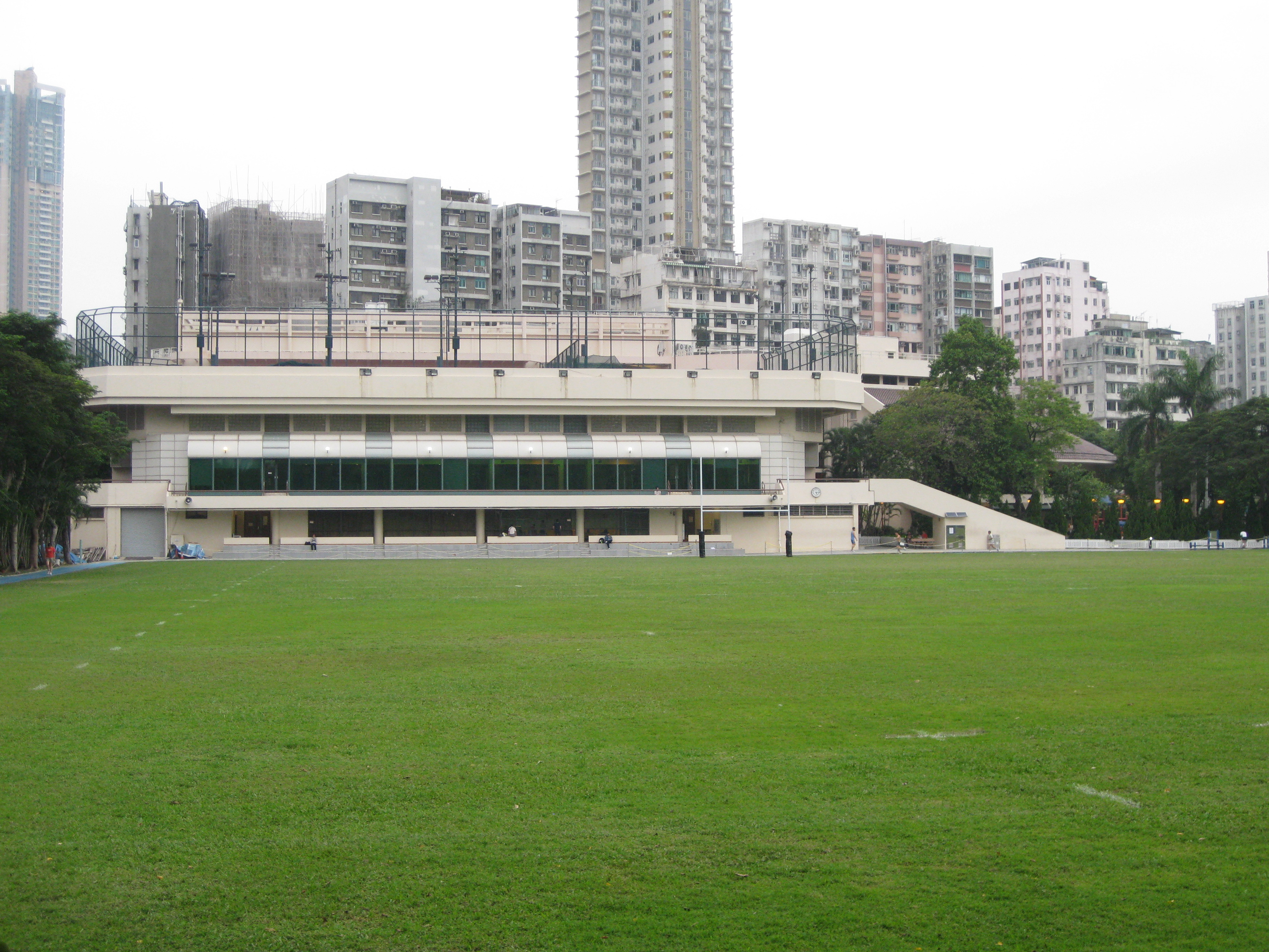 Police Club Football field